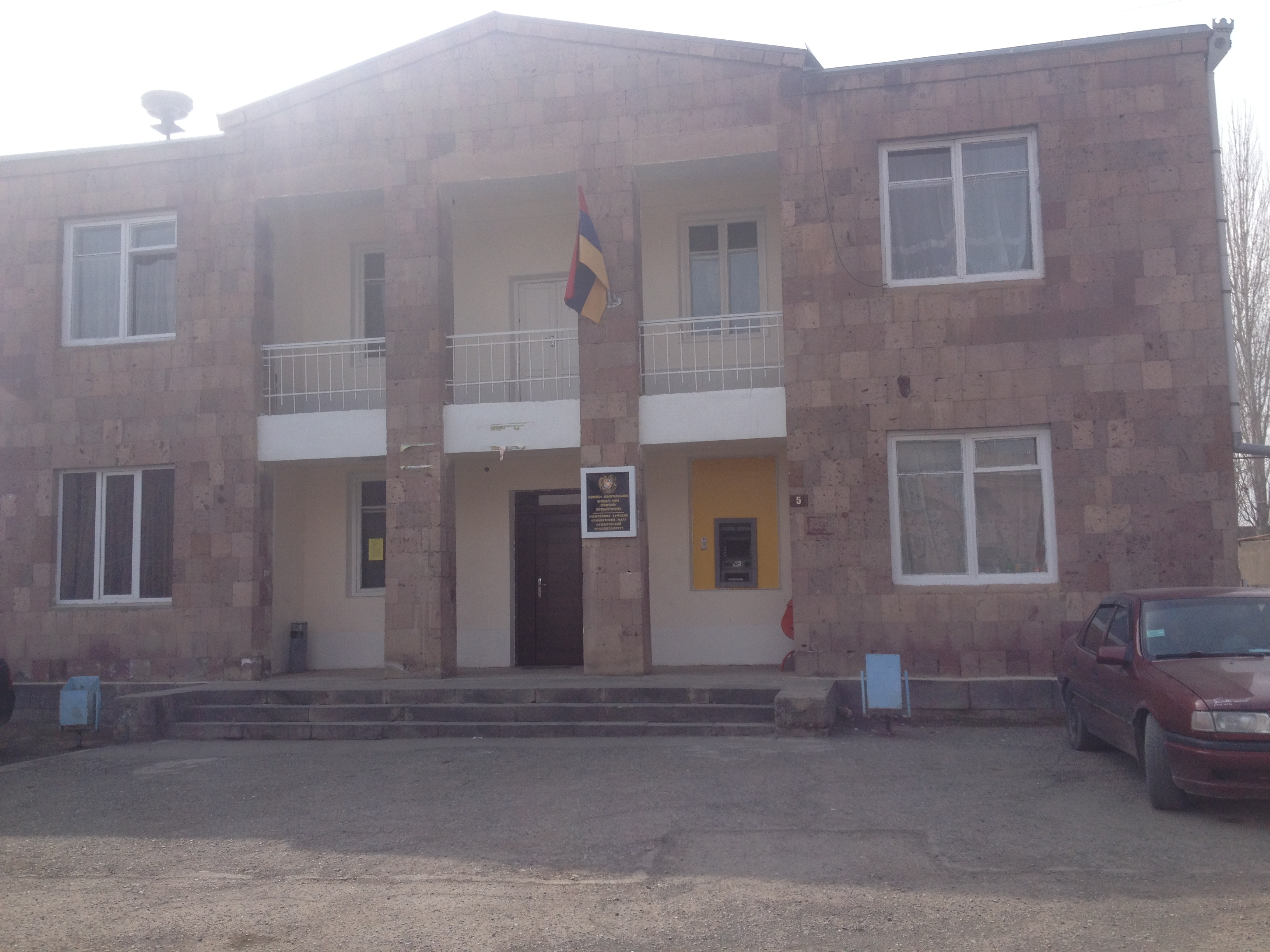 Արշաալույս,համայնքապետարան